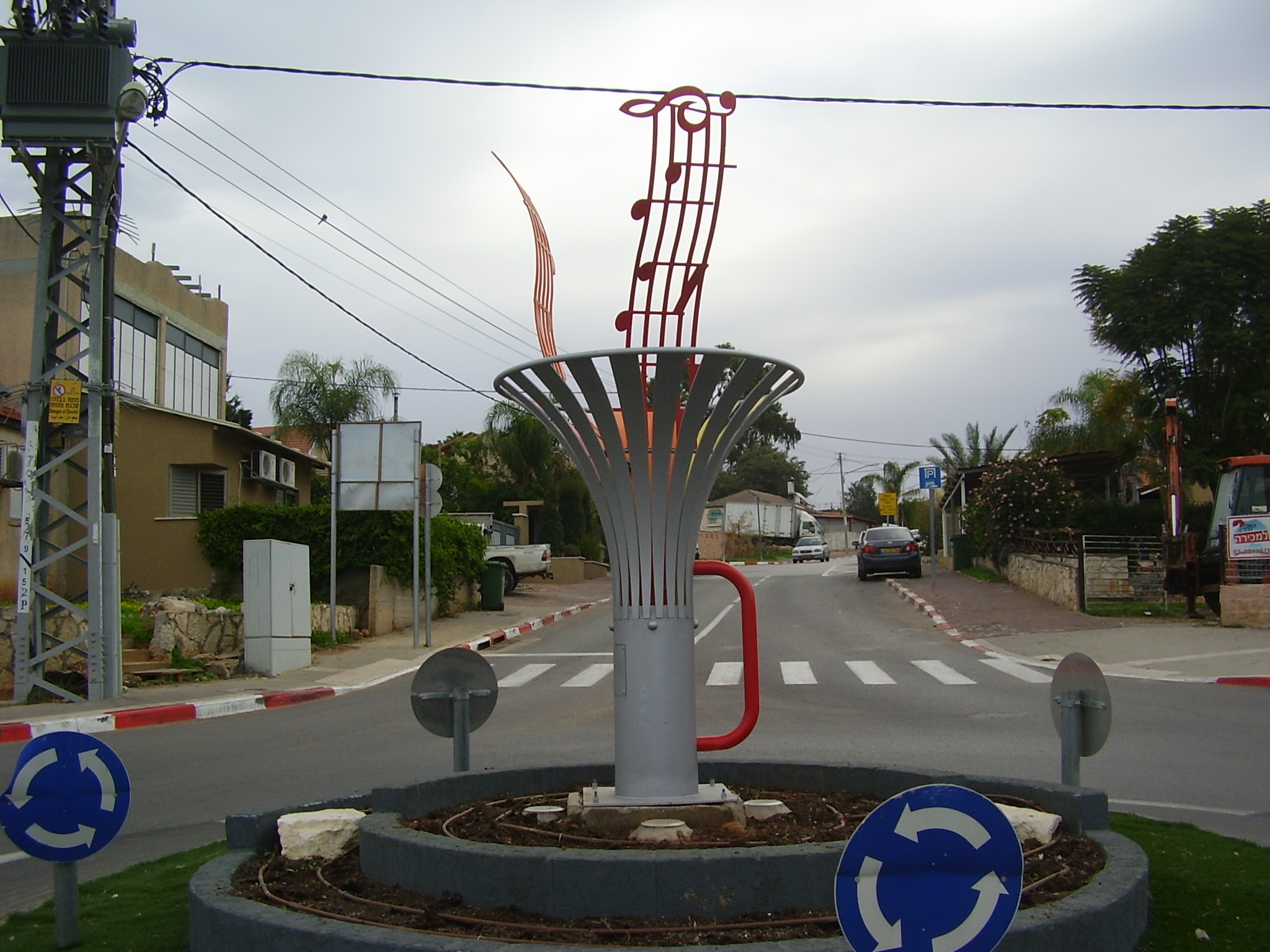 Rosh Ha'ayin music town - Trumpet